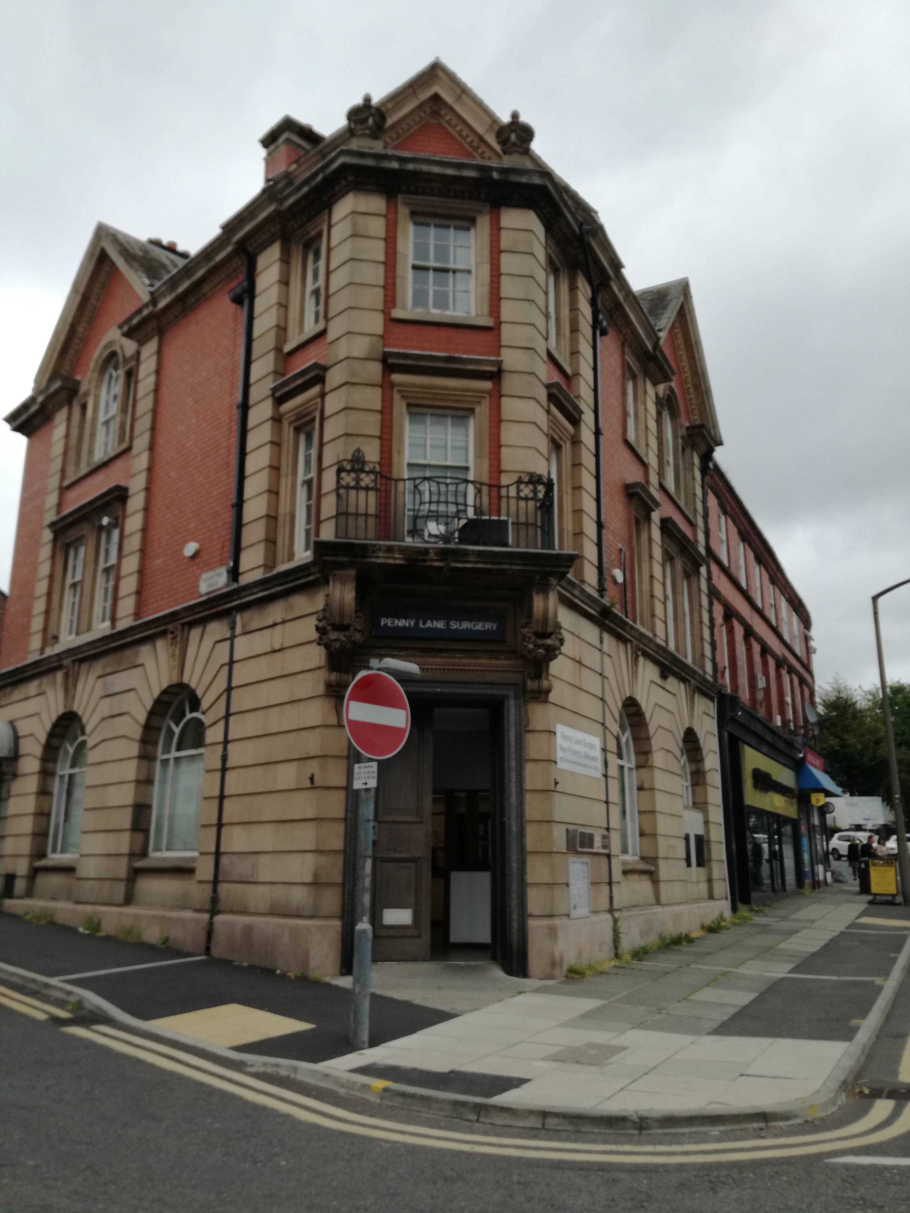 Penny Lane, Liverpool. Corner of the block where de barber shop is located. This is generally accepted to be the bank immortalised in Lennon-McCartney song "Penny Lane". At the time when Paul McCartney wrote the song this building was a Barclays Bank. Now is a doctor's surgery. Source: Song of the week: Penny Lane, Abbey Rd.